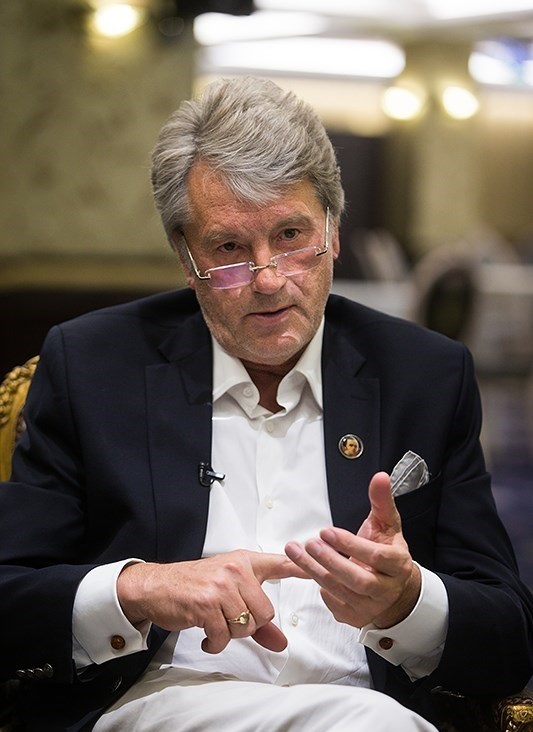 Viktor Yushchenko, former President of Ukraine interview with Tasnimnews